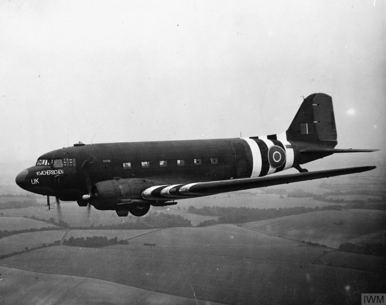 A Douglas Dakota C.III (FZ692, '5T-UK' "Kwicherbichen") of No. 233 Squadron RAF based at Blakehill Farm, Wiltshire (UK), in flight, returning to the United Kingdom with wounded from the Normandy battlefront.